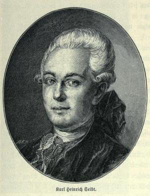 Portrait of Karl Heinrich Seibt (1735 - 1806), Austrian scholar and reformer of education.